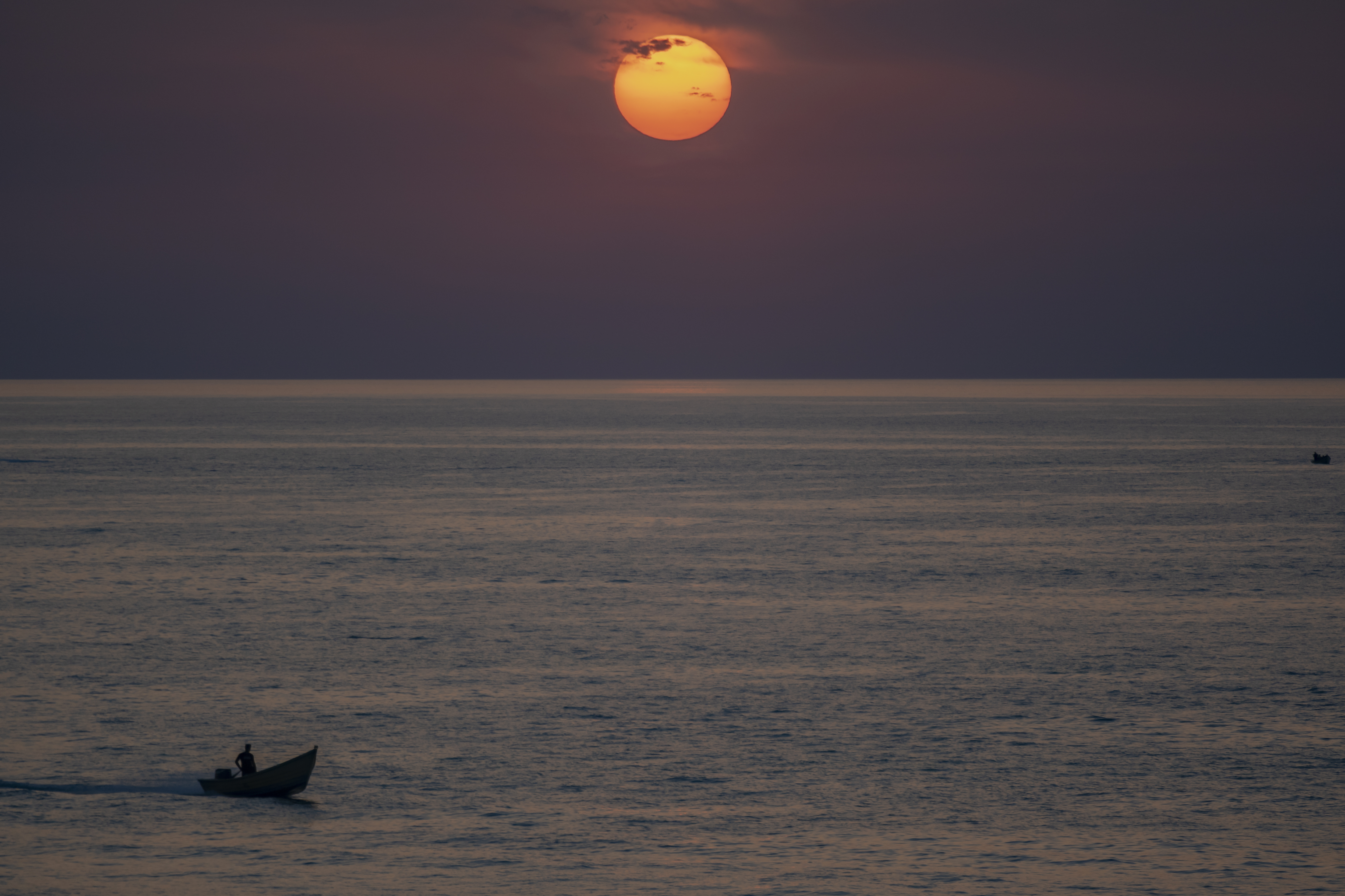 Sorkhrud is a city and capital of Sorkhrud District, in Mahmudabad County, Mazandaran Province, Iran. At the 2006 census, its population was 6,569, in 1,841 families.